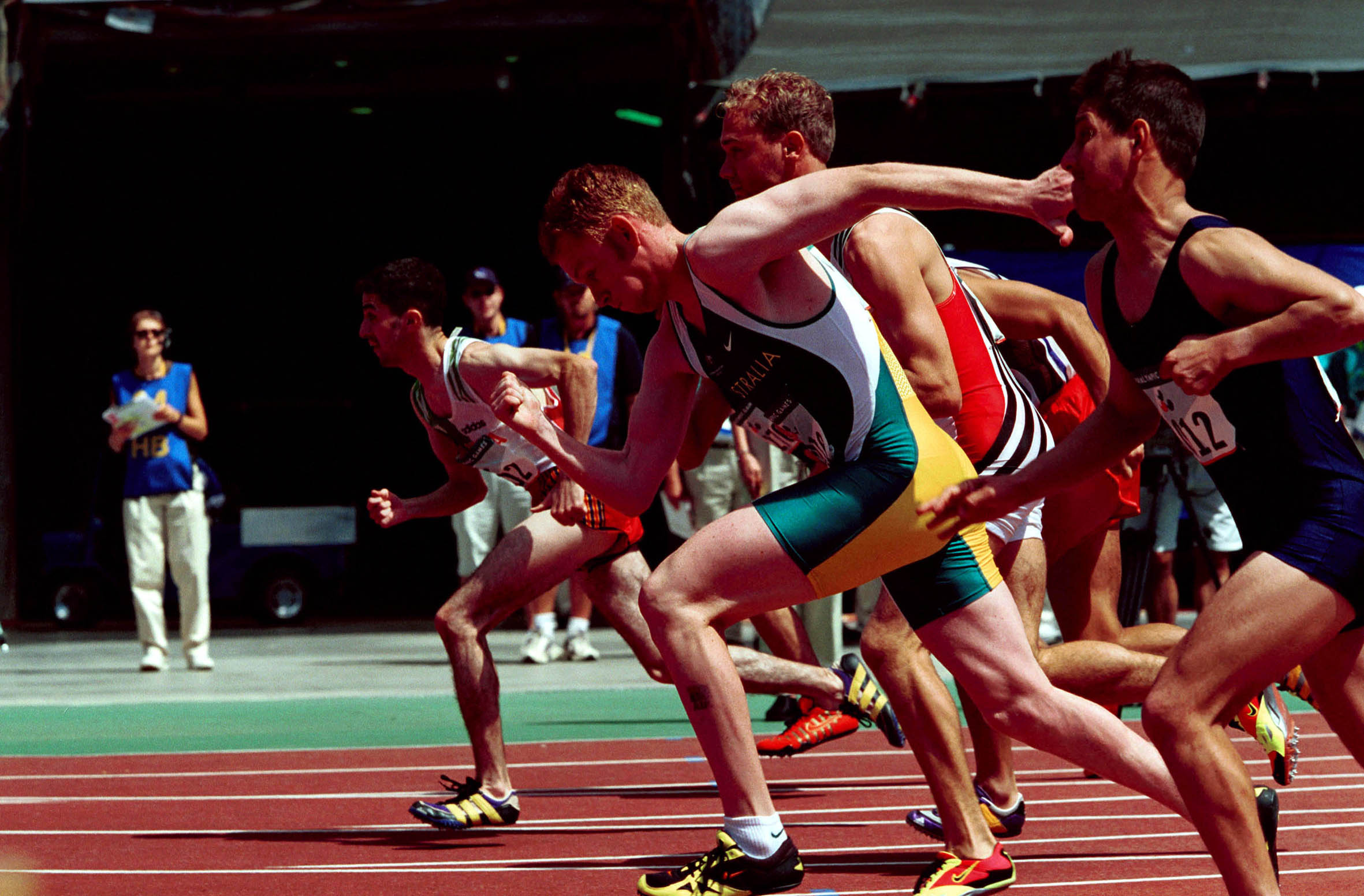 Action shot of Australian track athlete Kieran Ault-Connell during race competition at the 2000 Sydney Paralympic Games, Day 07